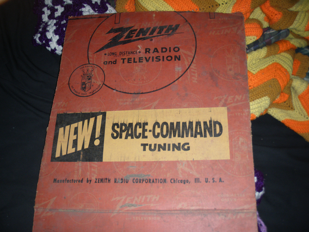 Zenith Electronics remote control advertisement